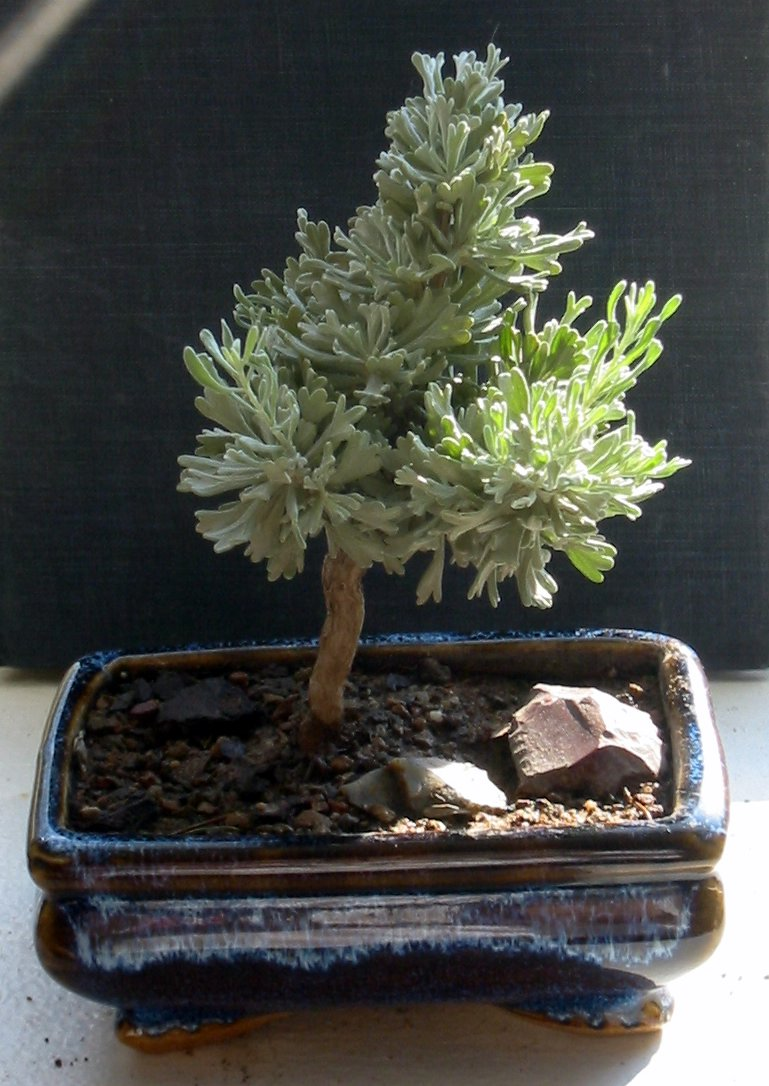 Artemisia tridentata A young sagebrush from Reno, Nevada, being trained into a bonsai.